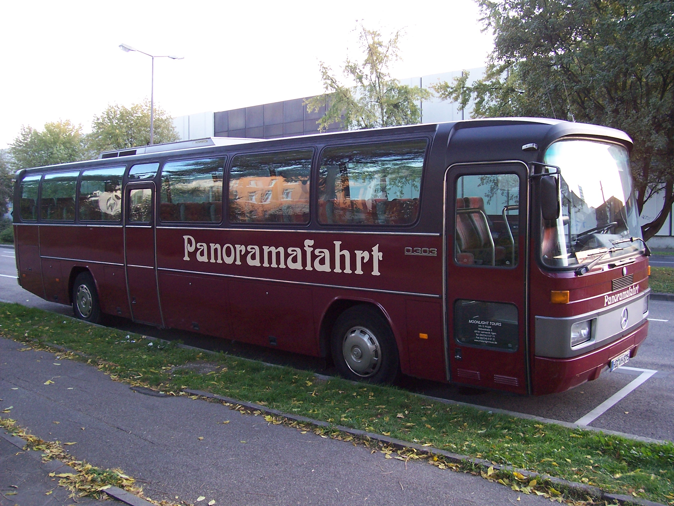 Mercedes-Benz O 303 bus (reg. HD-YH 875) in Mannheim, Germany. Moonlight Tours operator. My own photo